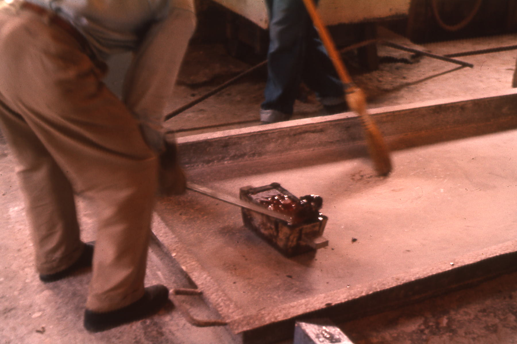 Weighing each gold ingot, for the La Luz Gold Mine complex (1936-1968). The town of Siuna, Nicaragua was the site of La Luz Mining company, which was active from 1936 to 1968. There was migration from other areas of the country to work in the gold mine during these years, including people from the coast and indigenous groups. The mine was shut down in 1968 due to damage of the Ei River Hydro Electric Plant.[1]